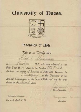 An Old document of Dhaka university certificate from 1928